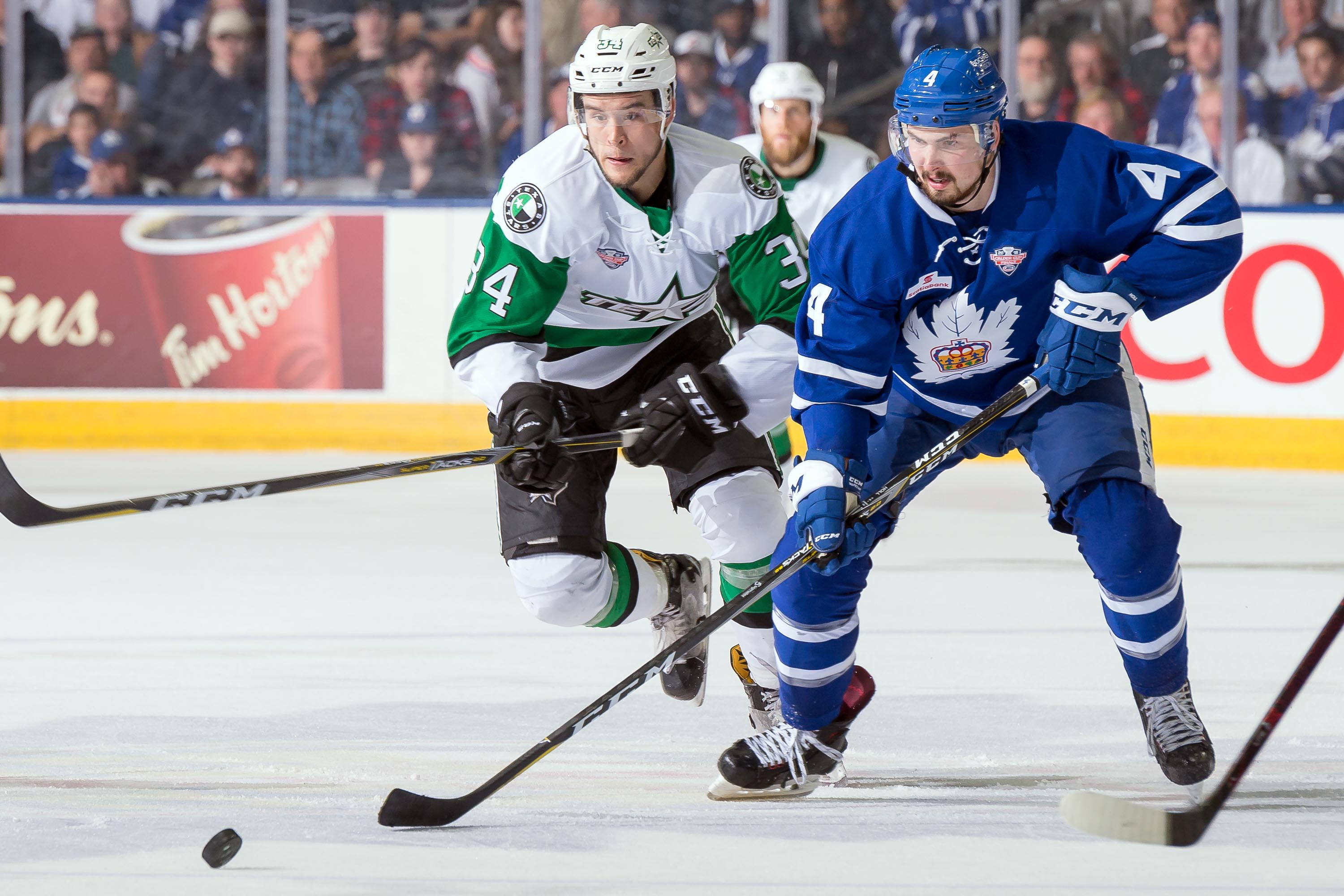 Photo: Christian Bonin